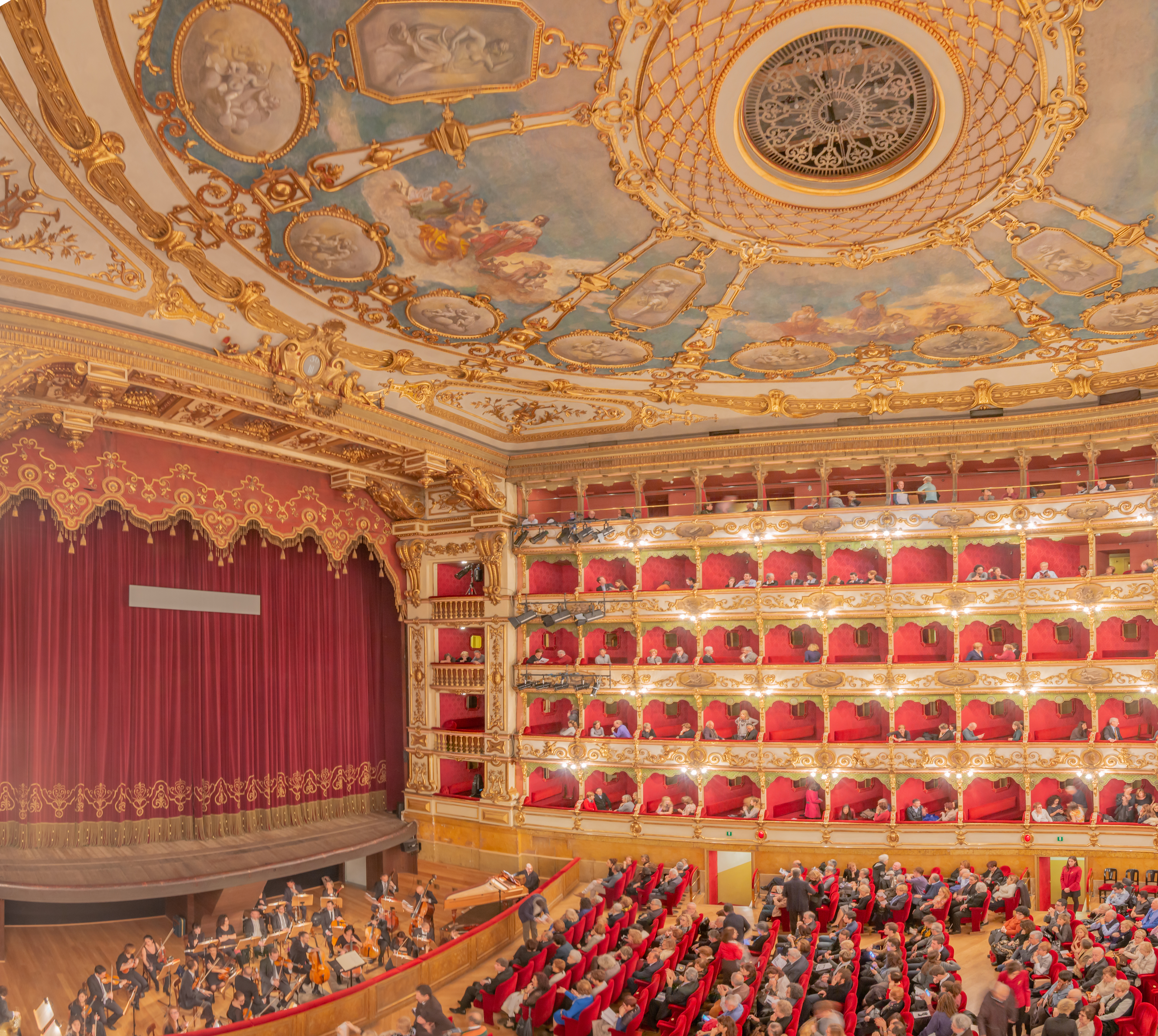 Internal view of the Teatro Grande in Brescia